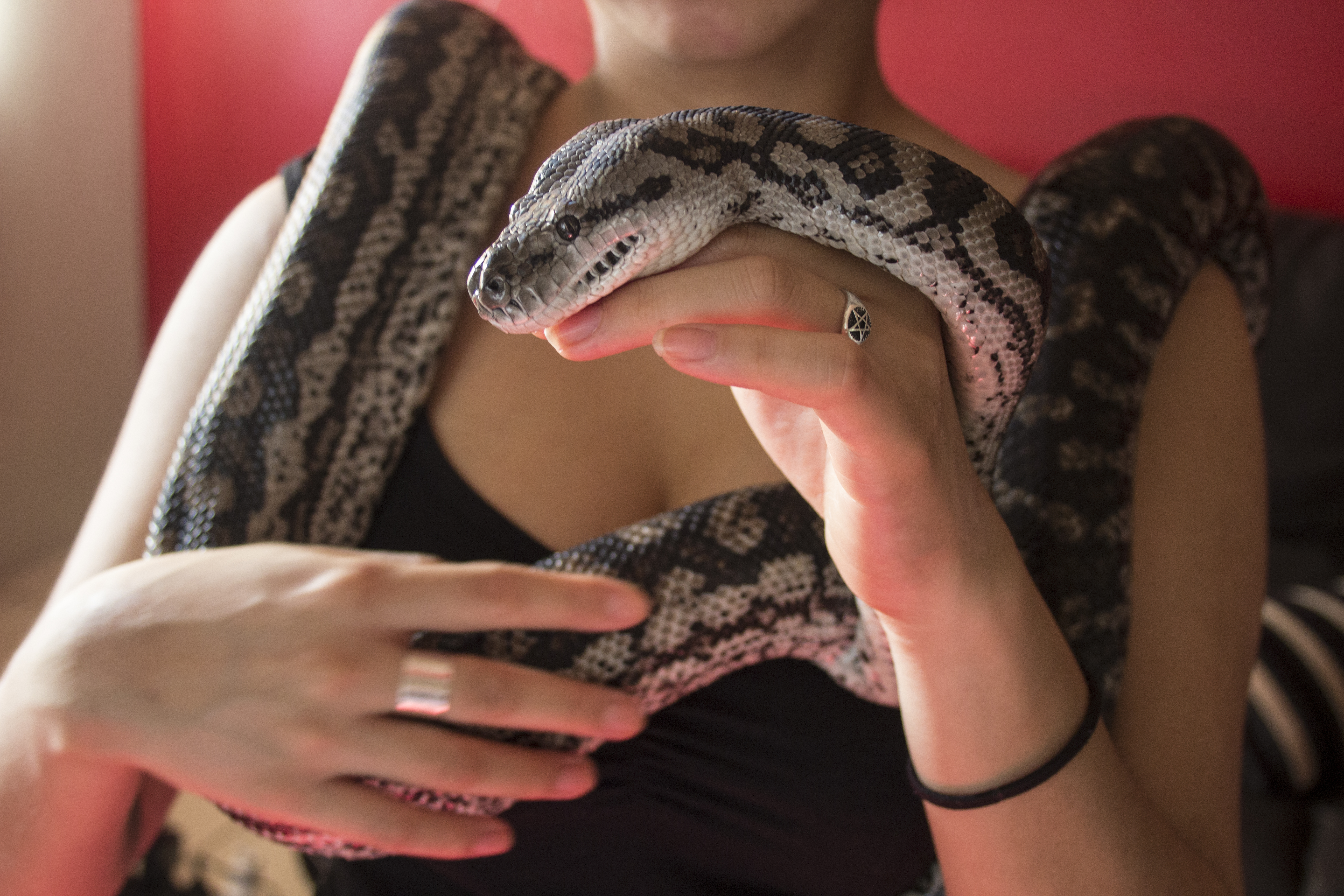 Handling an adult male Murray Darling carpet python, or Morelia spilota metcalfei. At the time the photo was taken, he was 5 years old, 1.8m long and weighed 4.4kg.